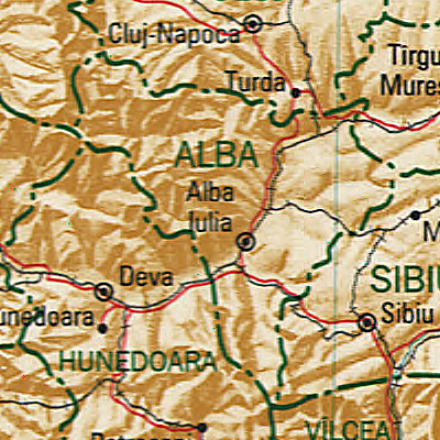 Map of Alba County, Romania.